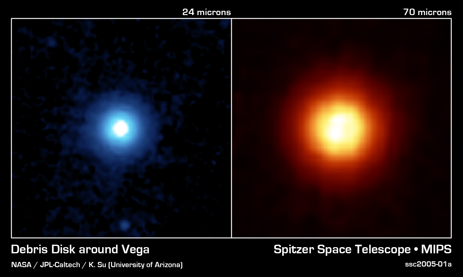 NASA's Spitzer Space Telescope recently captured these images of the star Vega, located 25 light years away in the constellation Lyra. Spitzer was able to detect the heat radiation from the cloud of dust around the star and found that the debris disk is much larger than previously thought. This side-by-side comparison, taken by Spitzer's multiband imaging photometer, shows the warm infrared glows from dust particles orbiting the star at wavelengths of 24 microns (on the left in blue) and 70 microns (on the right in red). Both images show a very large, circular and smooth debris disk. The disk radius extends to at least 815 astronomical units. (One astronomical unit is the distance from Earth to the Sun, which is 150-million kilometers or 93-million miles). Scientists compared the surface brightness of the disk in the infrared wavelengths to determine the temperature distribution of the disk and then refer the corresponding particle size in the disk. Most of the particles in the disk are only a few microns in size, or 100 times smaller than a grain of Earth sand. These fine dust particles originate from collisions of embryonic planets near the star at a radius of approximately 90 astronomical units, and are then blown away by Vega's intense radiation. The mass and short lifetime of these small particles indicate that the disk detected by Spitzer is the aftermath of a large and relatively recent collision, involving bodies perhaps as big as the planet Pluto. The images are 3 arcminutes on each side. North is oriented upward and east is to the left.